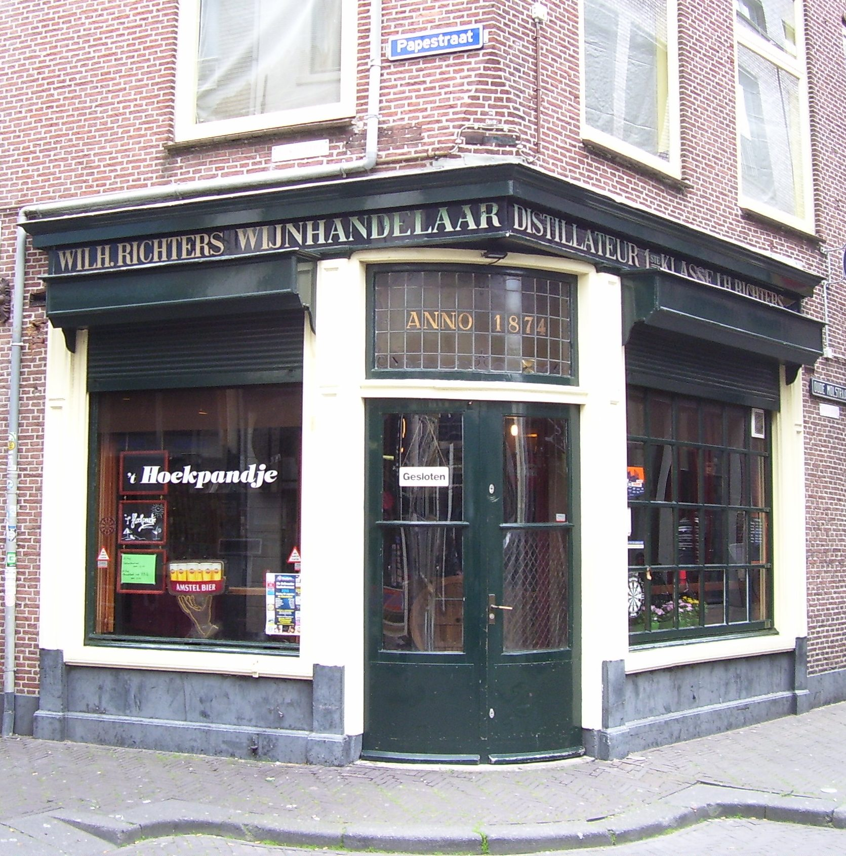 Former liquor store of Wilhelm Richters, Oude Molstraat 13, The Hague (2008)